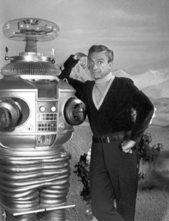 Publicity photo of American character actor, Jonathan Harris promoting his role on the CBS television series Lost in Space.